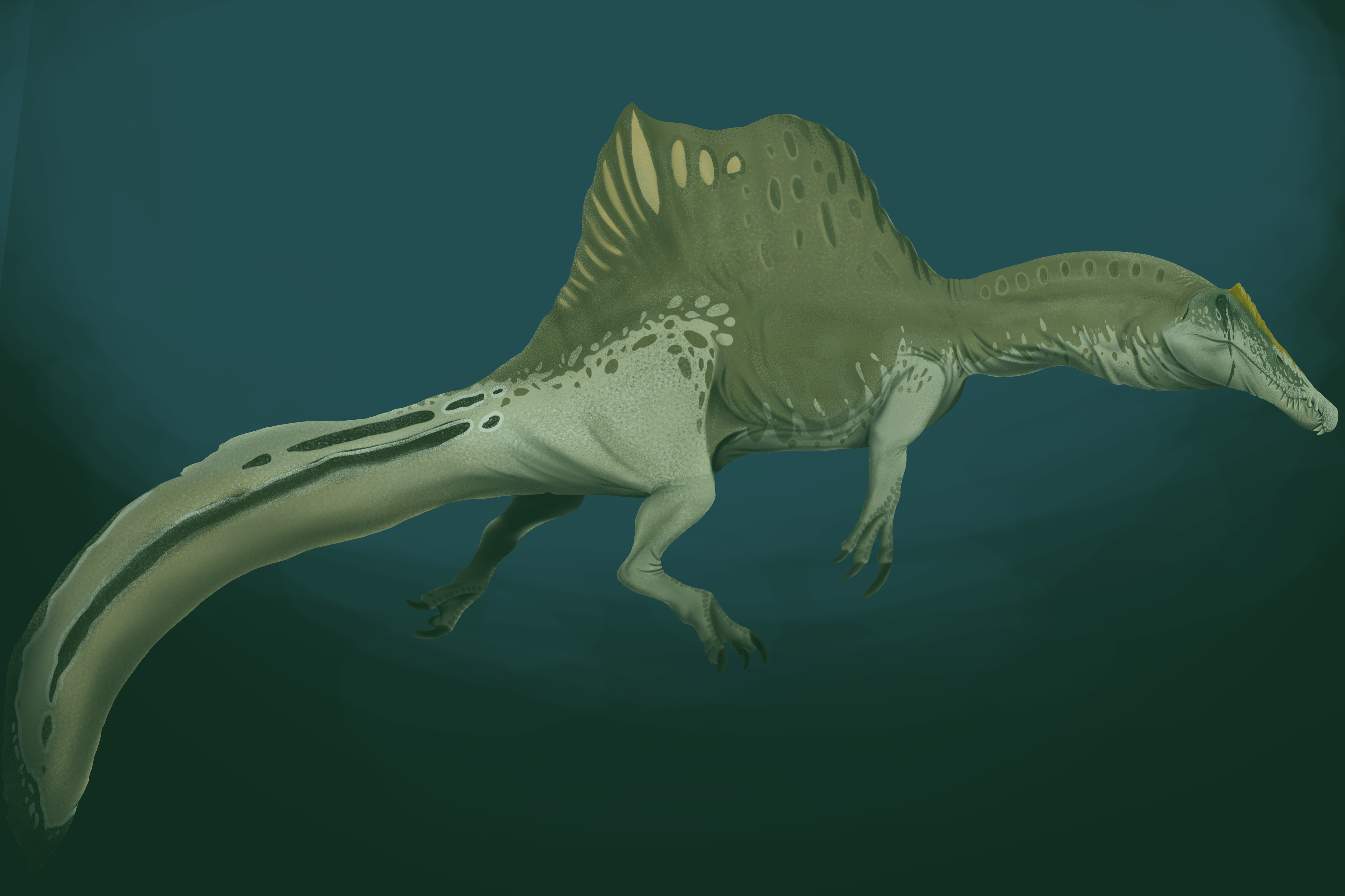 A reconstruction based on the new description of S aegyptiacus